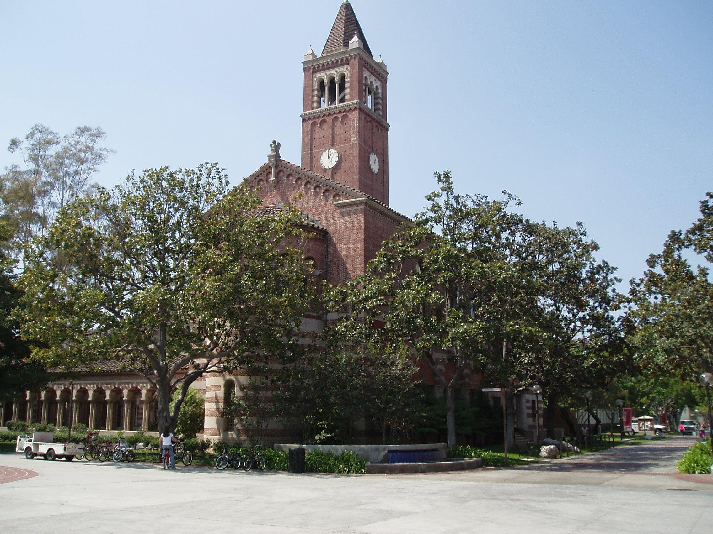 Photo taken by Padsquad. Please observe license and properly cite in use outside Wikipedia.